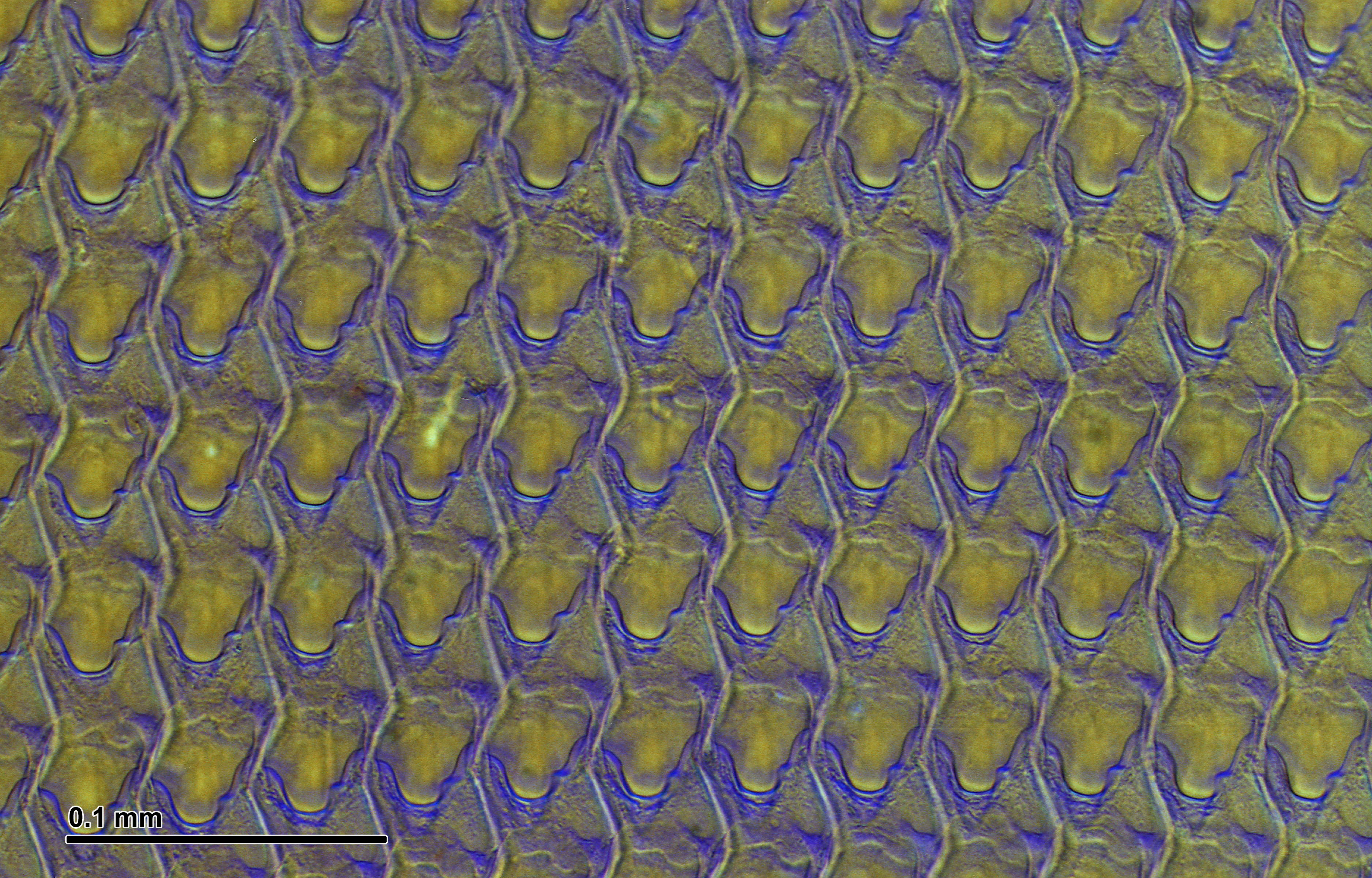 Helix pomatia radula (Helix pomatia ): radula. Optical microscopy technique: Differential interference contrast (Nomarski). Magnification: 600x (for picture width 26 cm ~ A4 format).